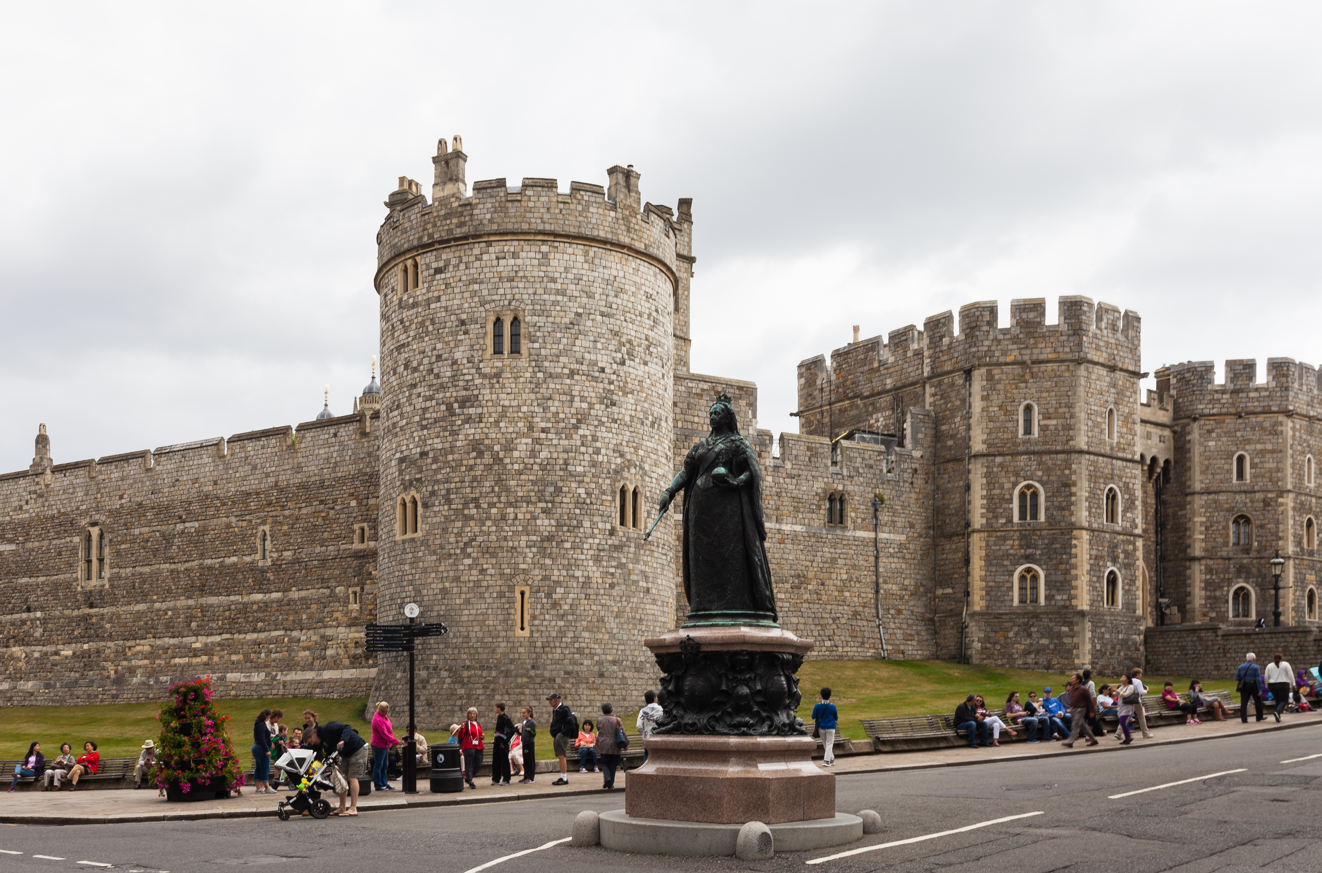 Statue of Queen Victoria at the Castle Hill, Windsor, England